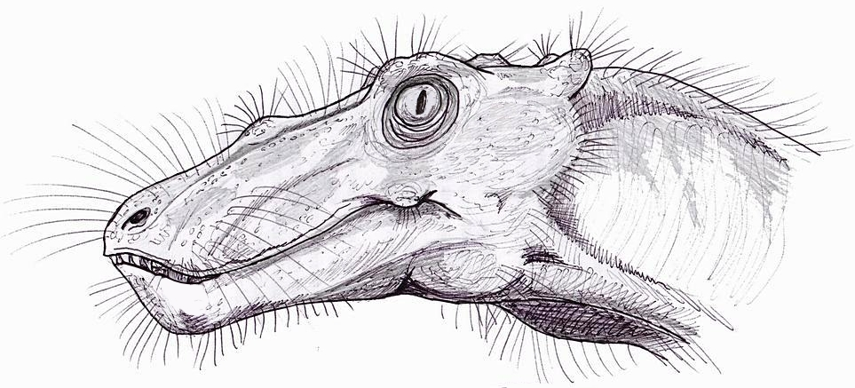 Lobalopex head